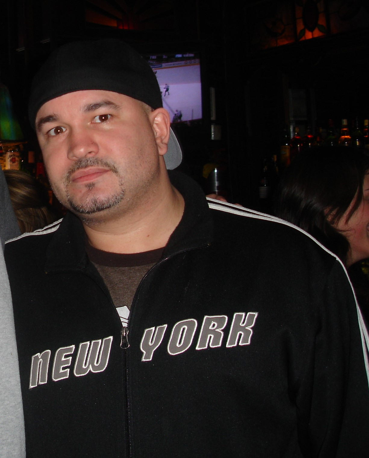 Robert Kelly at Comedy Cellar in 2005